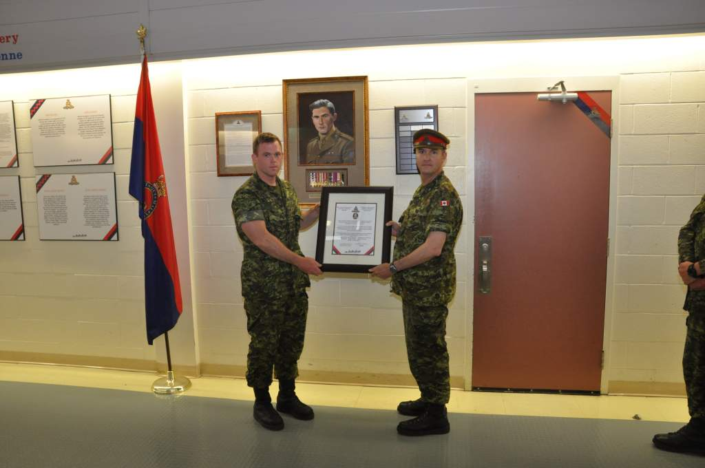 A photo of the Top Candidate from the Forward Observation Officer Course being presented with the Norman Buchanan Award at the Royal Regiment of Canadian Artillery School in Oromocto, NB.